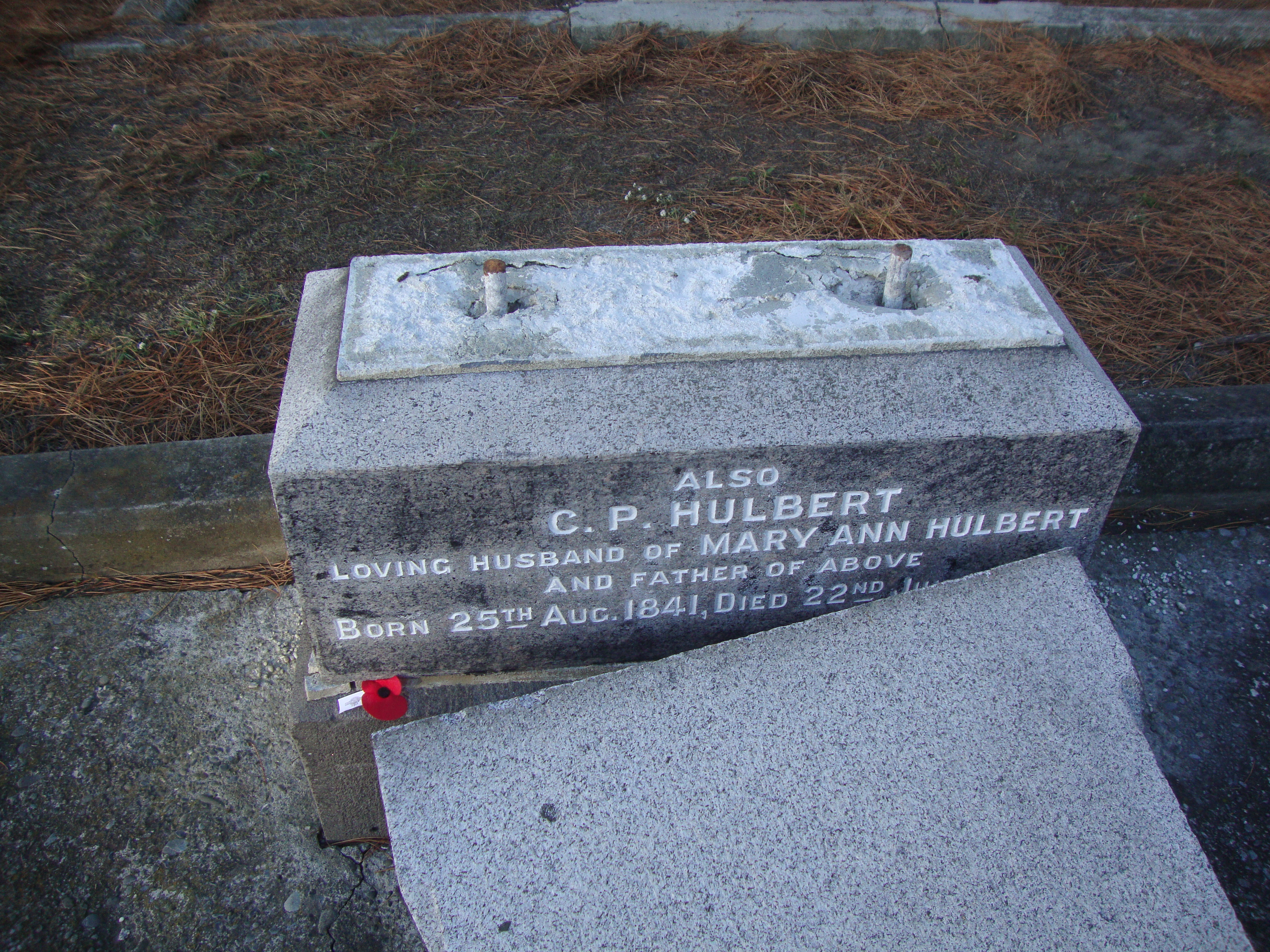 Grave of Charles Hulbert at Linwood Cemetery.